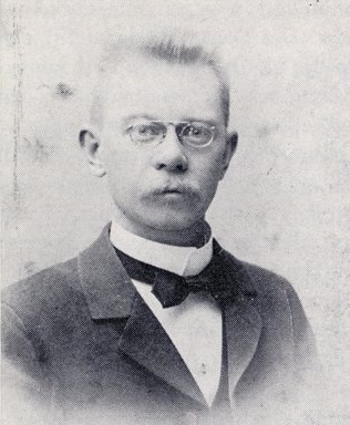 Swedish teacher Gideon Danell (1873-1957)